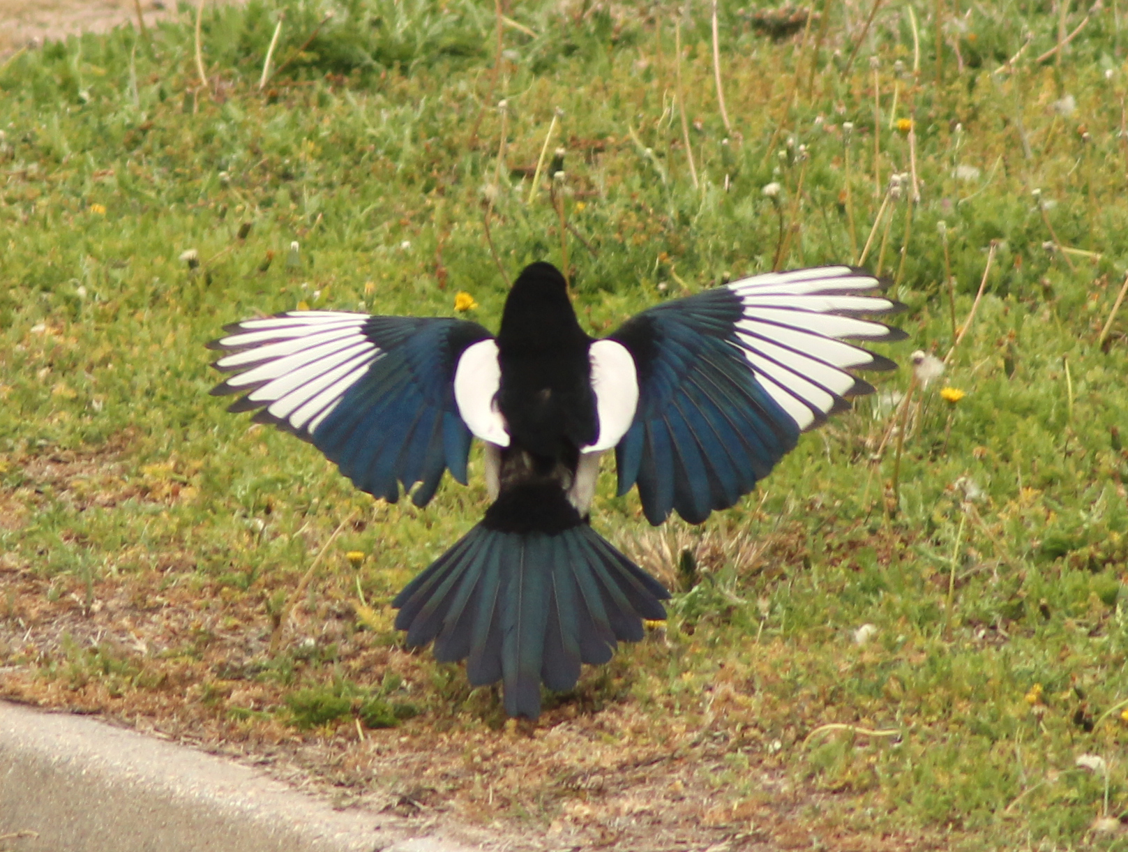 A European magpie (Pica pica) in Madrid (Spain).